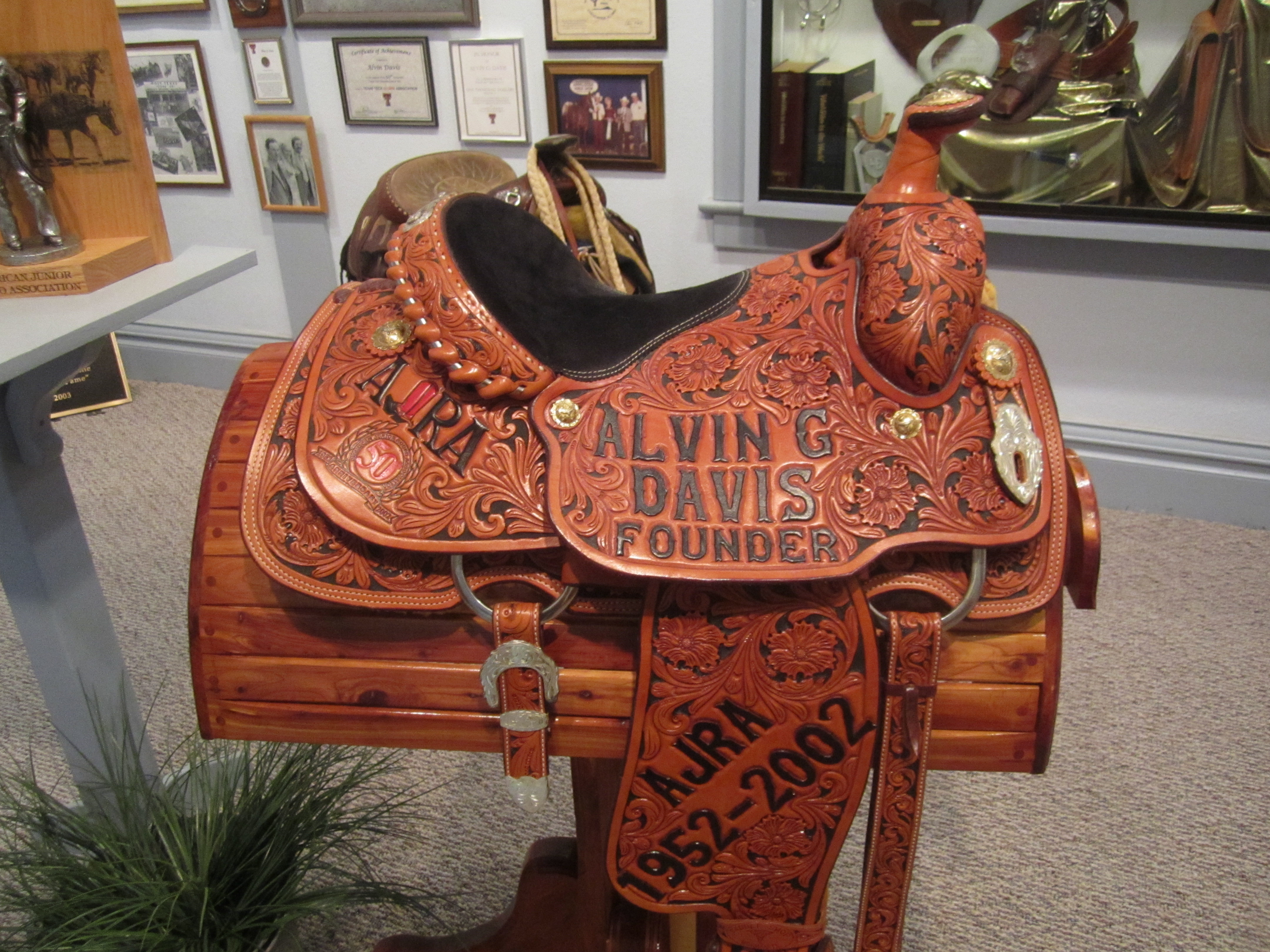 I took photo with Canon camera in Post, TX.